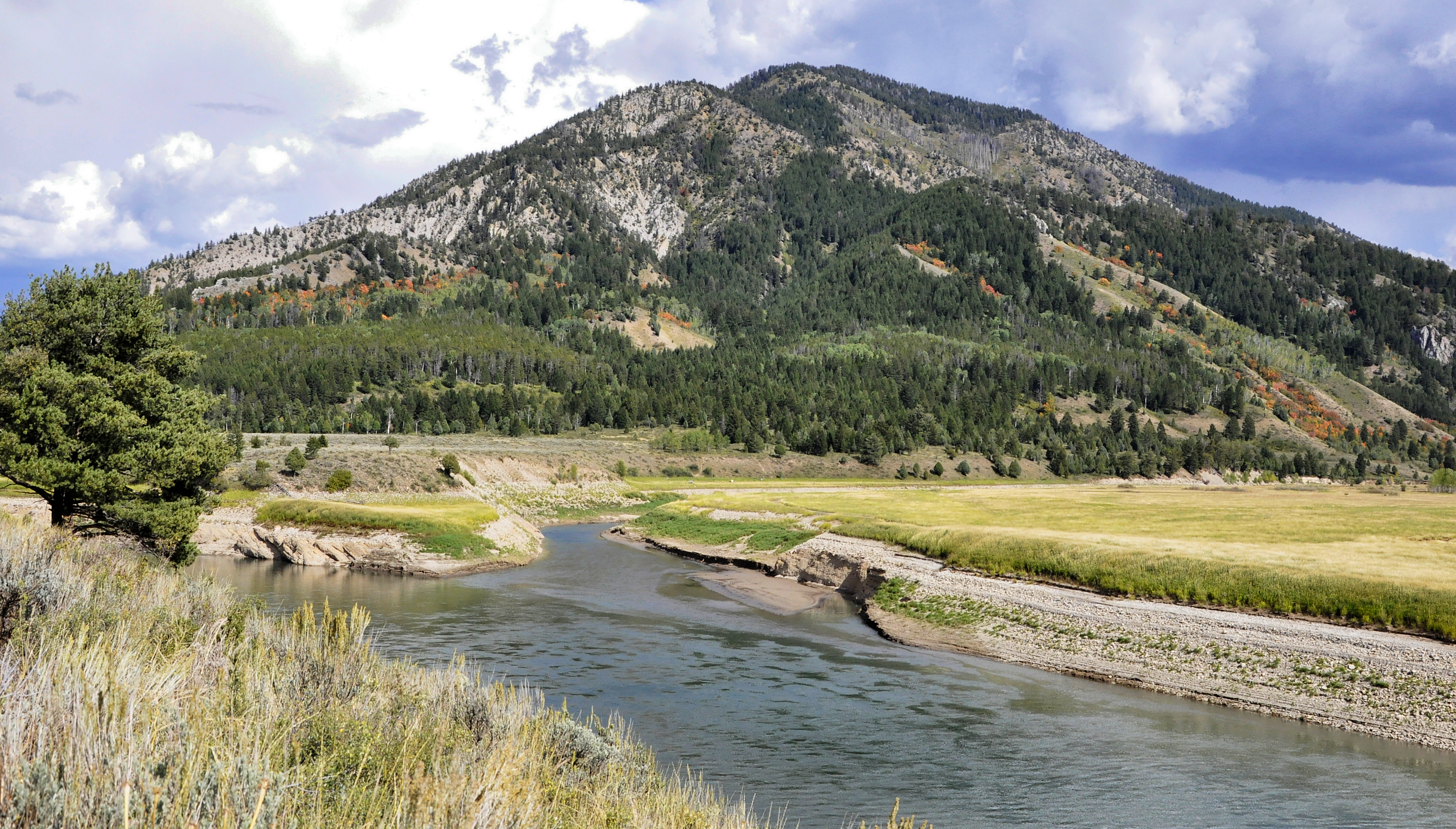 Confluence of Greys River (bottom of picture) and Snake River, Alpine, Wyoming